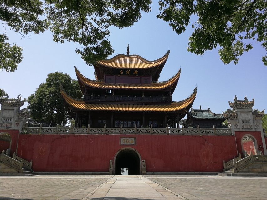 Frontal view of Yueyang Tower Yueyang Tower is a Chinese tower in Yueyang, Hunan, China.